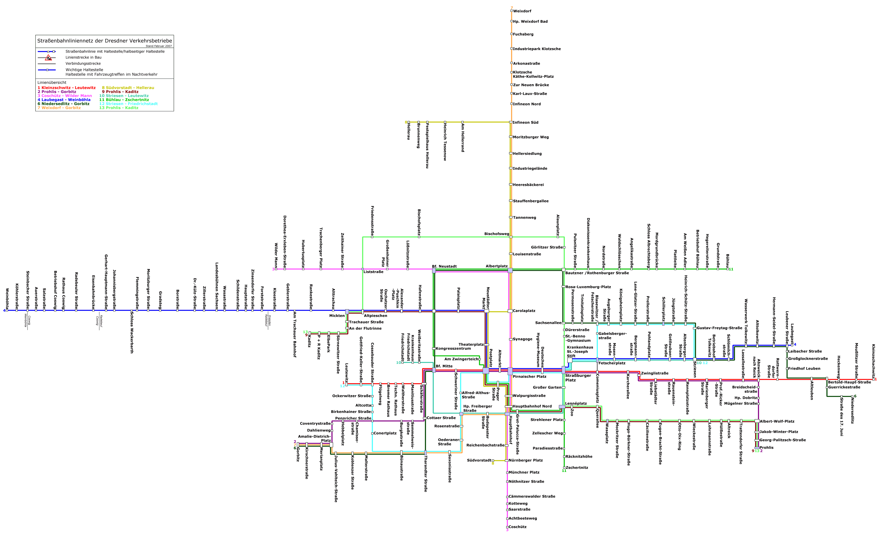 schematic map of the Dresden tram lines (version as of May 2006)